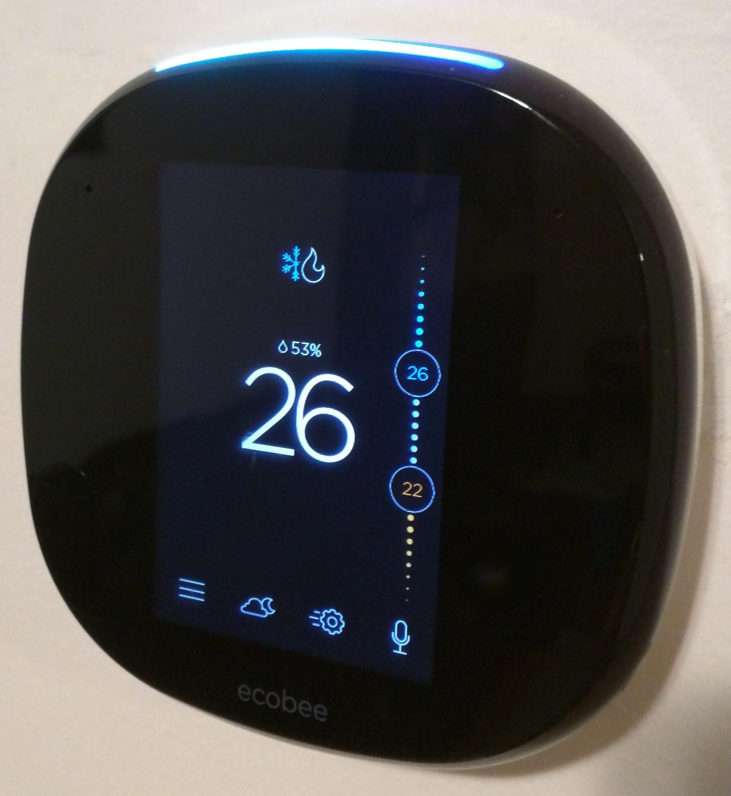 ecobee4 on the wall from an angle showing home screen